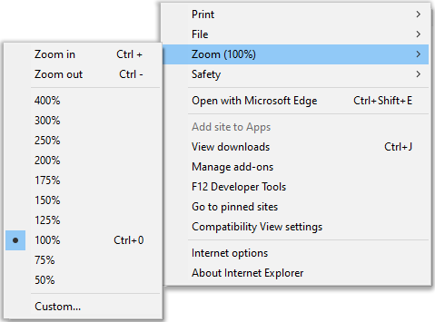 Internet Explorer 9.0 showing page zoom context menu